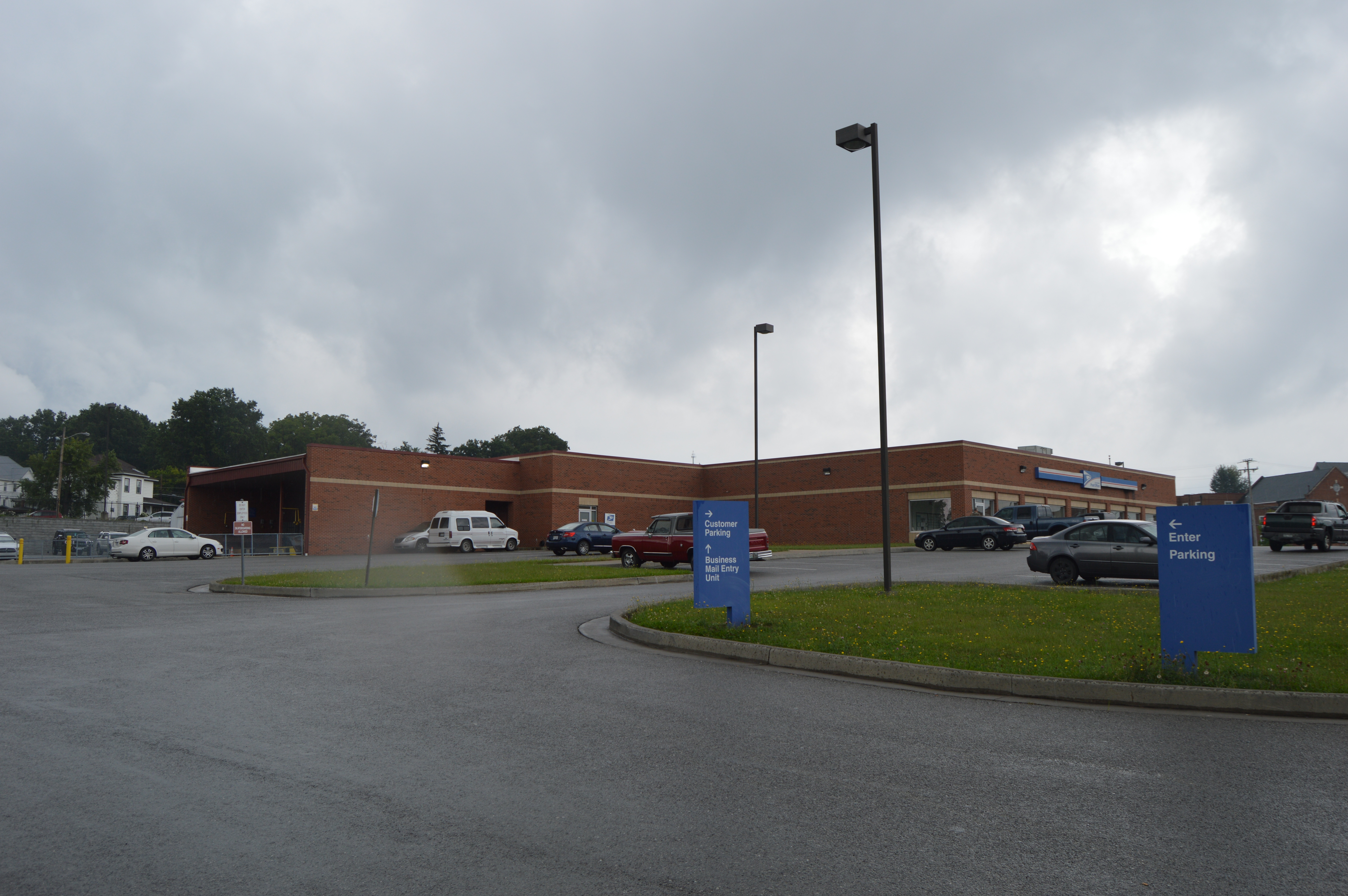 Overview of the main Princeton post office, located at 1000 Mercer Street in Princeton, West Virginia, United States. It occupies the site of the Dr. James W. Hale House, which was listed on the National Register of Historic Places in 1976; although no longer standing, it has not yet been delisted from the Register.